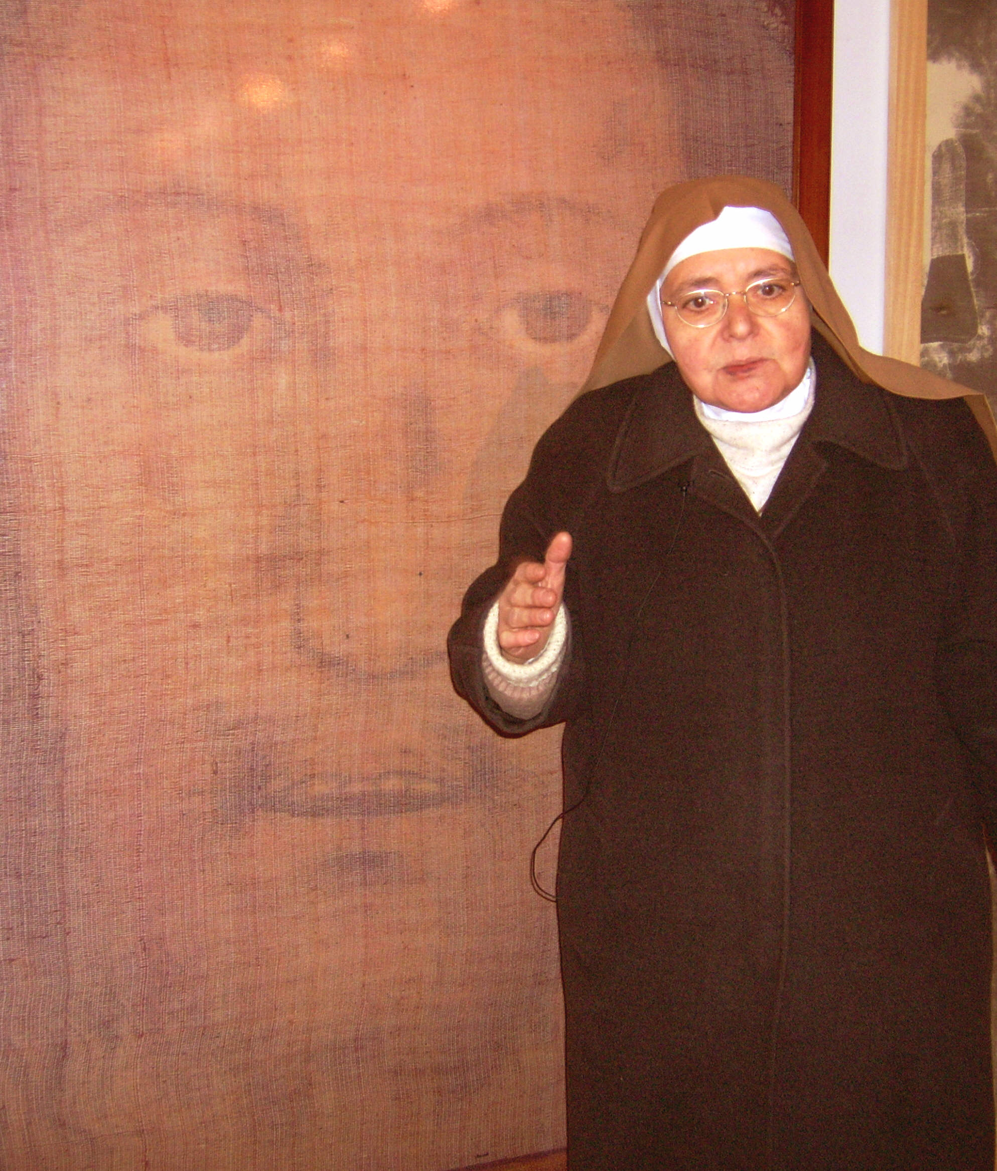 Sr. Blandina Paschalis Schlömer OSCO in front of an enlarged photo of the Veil of Manoppello in the Penuel Exhibition in Manoppello, Italy)